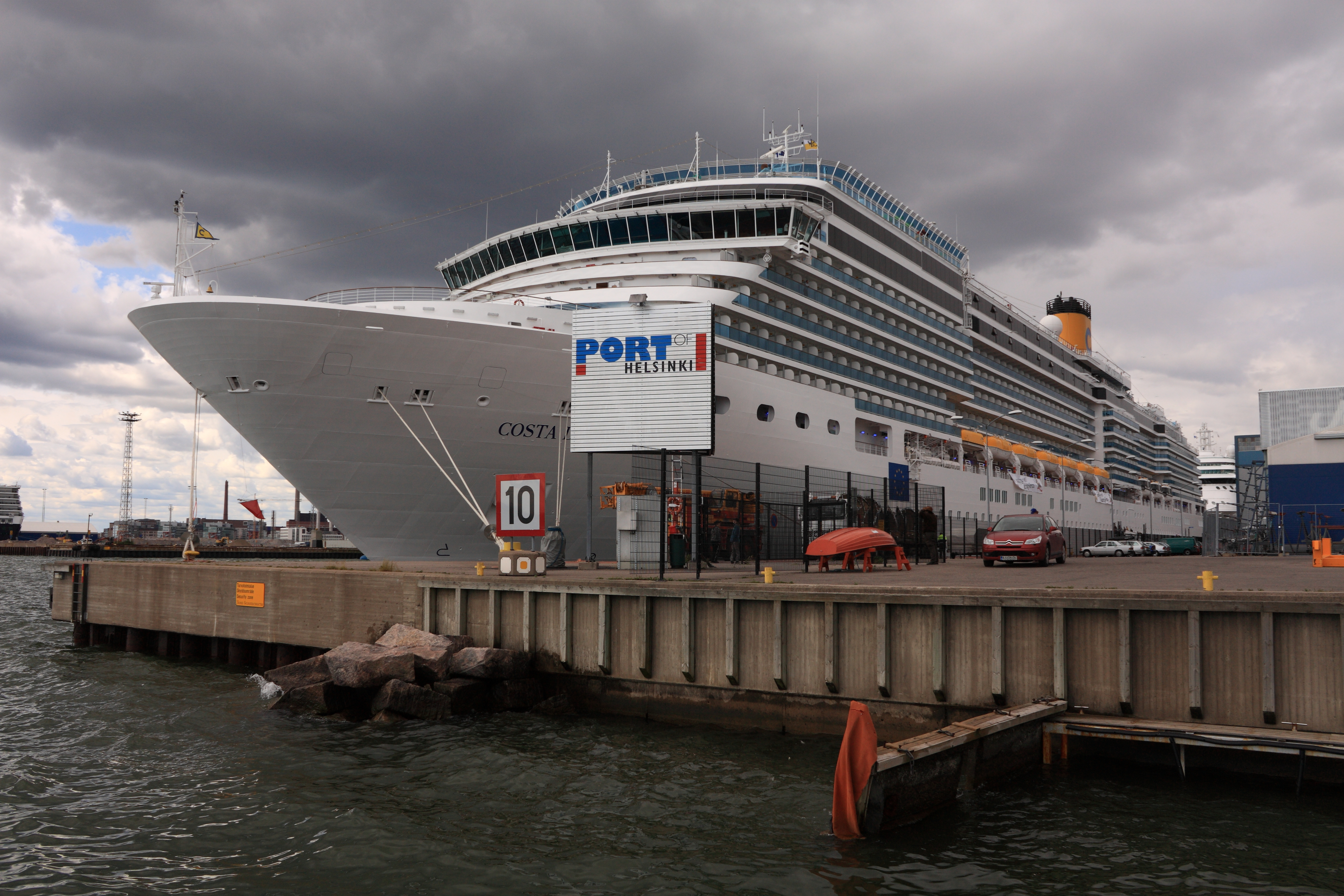 MS Costa Deliziosa in Helsinki harbour.